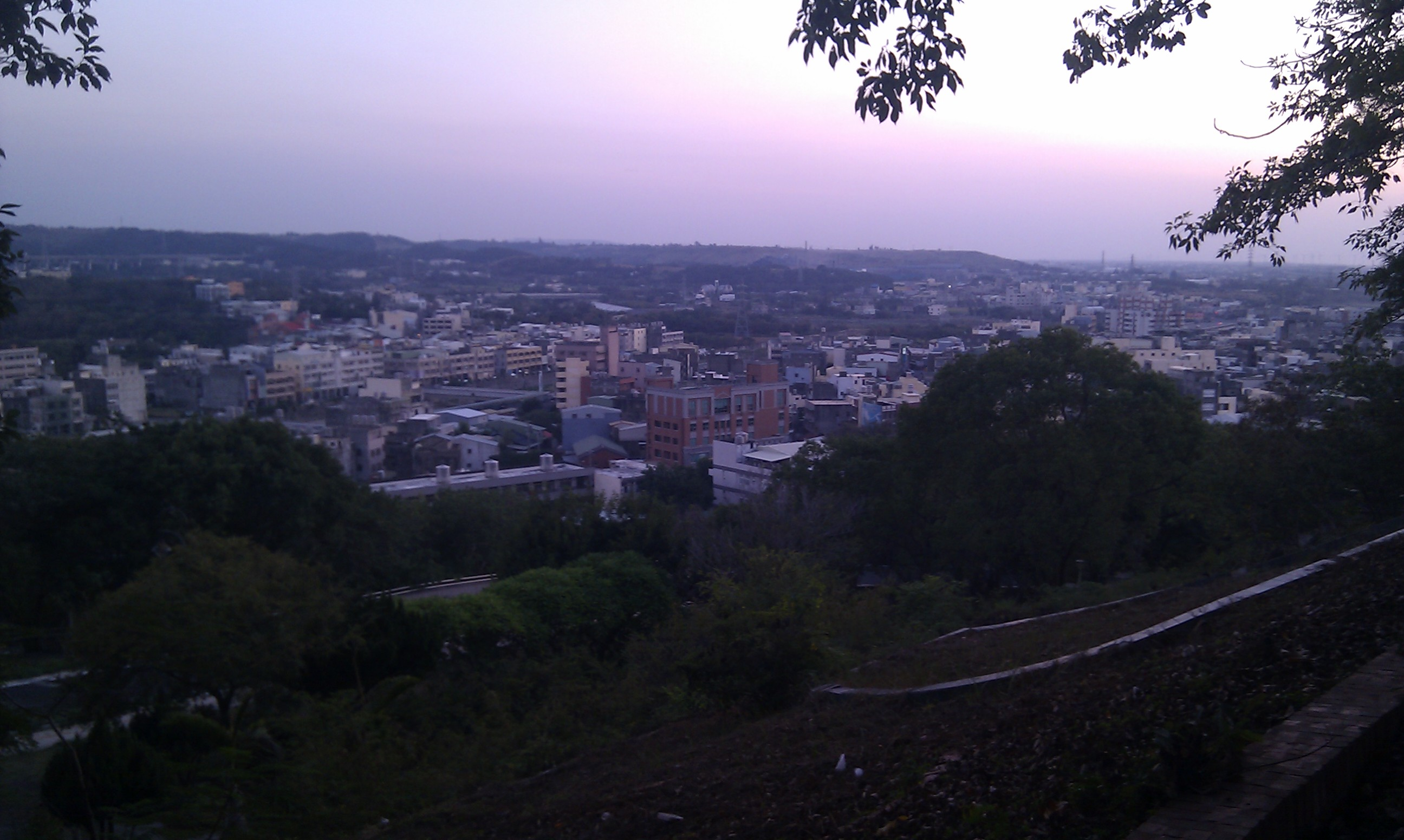 Tungshiau Town centre